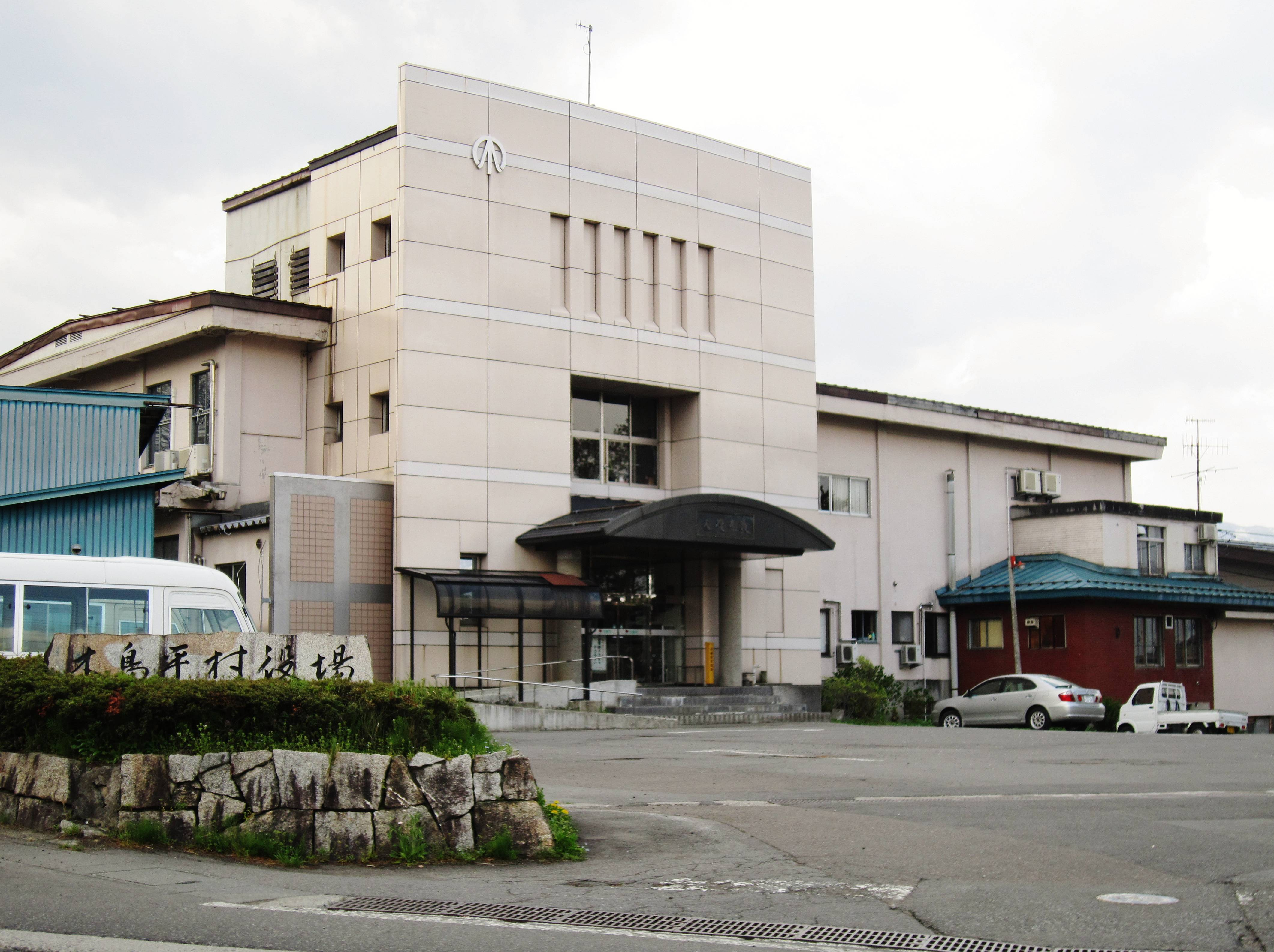 Kijimadaira village office.